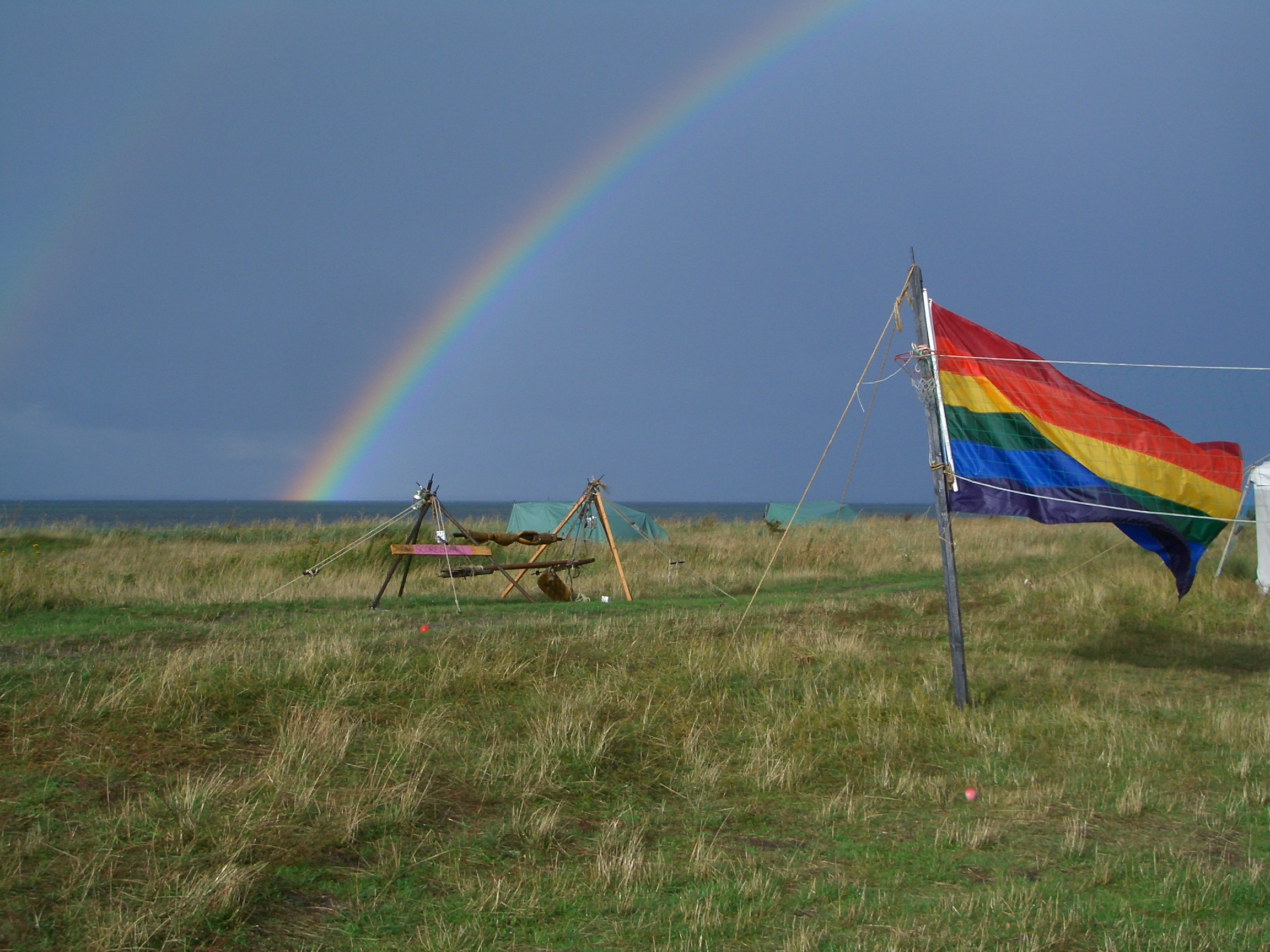 Two rainbows at the same time